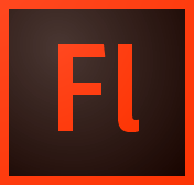 Icon for Adobe Flash Professional CS6